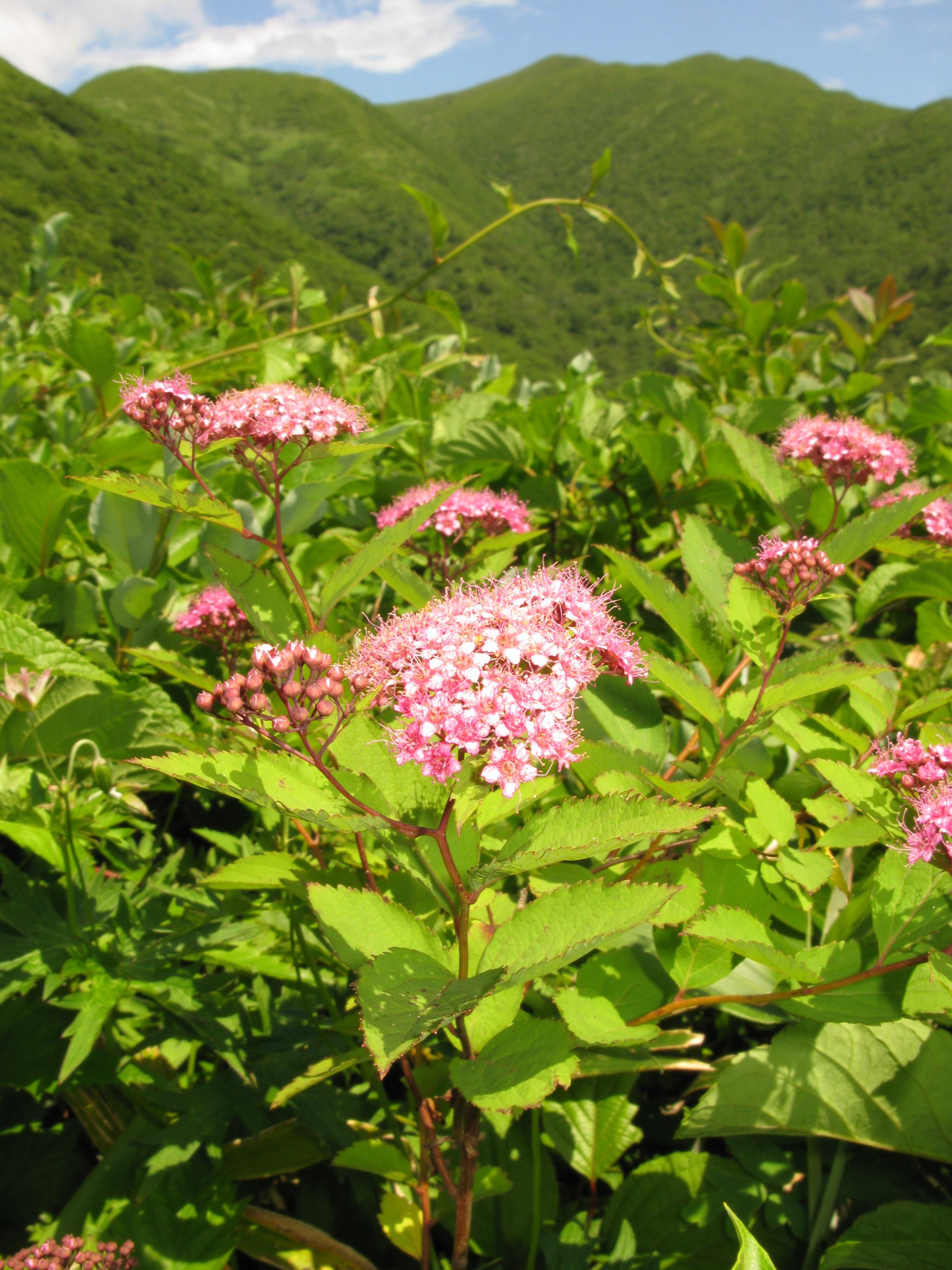 Spiraea japonica ,Aizu area,Fukushima pref.,Japan